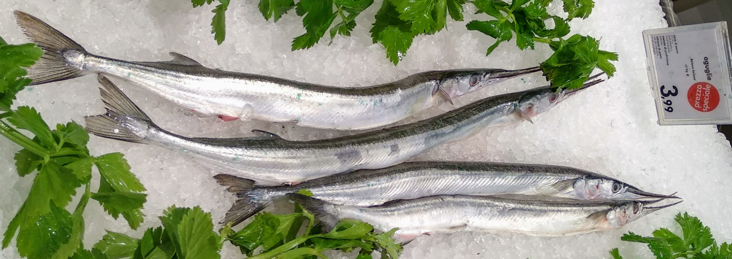 Belone belone